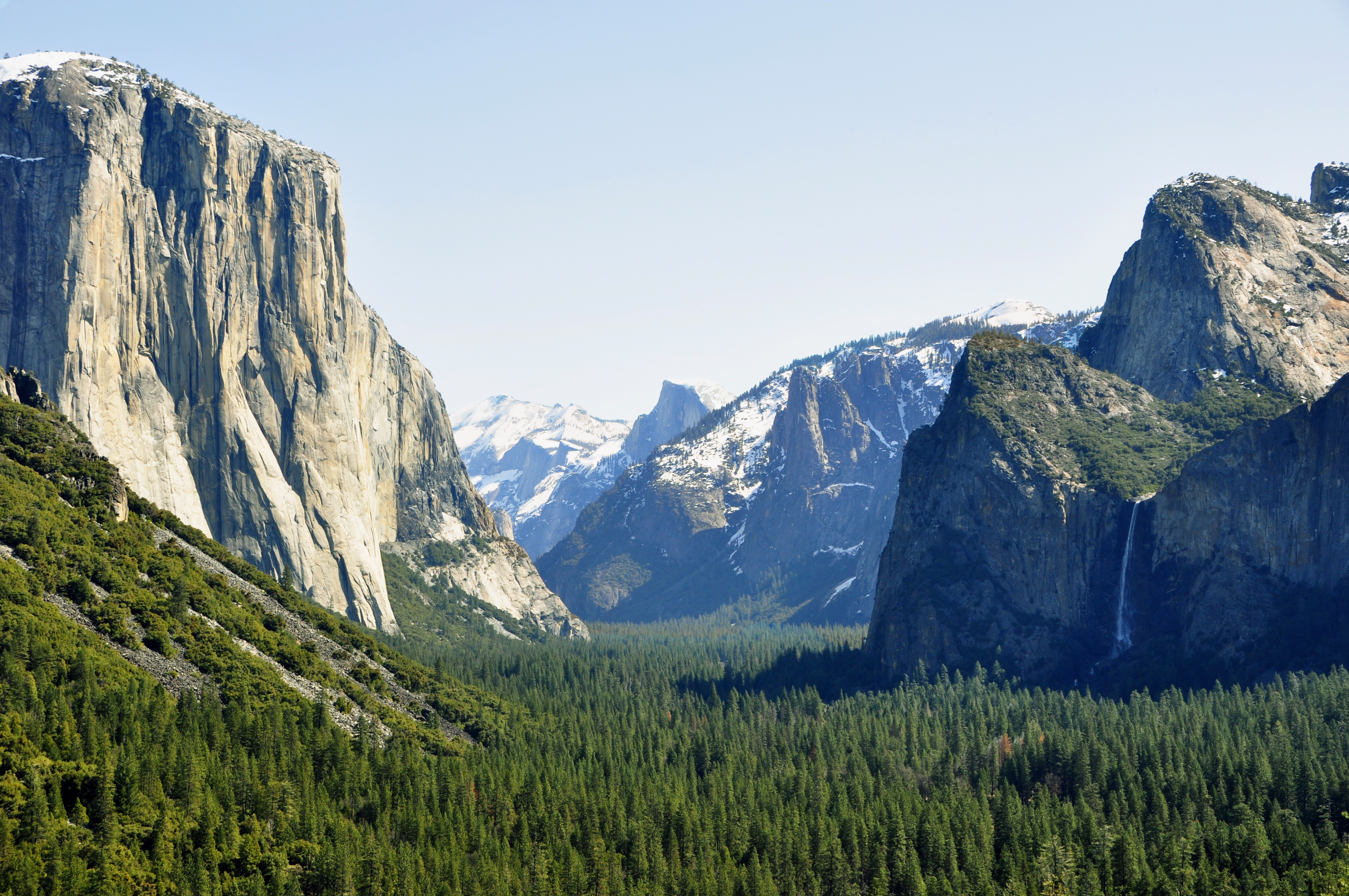 yosemite valley tunnel view 2010